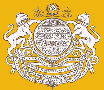 Coat of Arms of Hyderabad State, India. Copyright has expired, now in the public domain